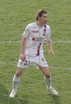 Tiago Mendes (Valenciennes vs Lyon)